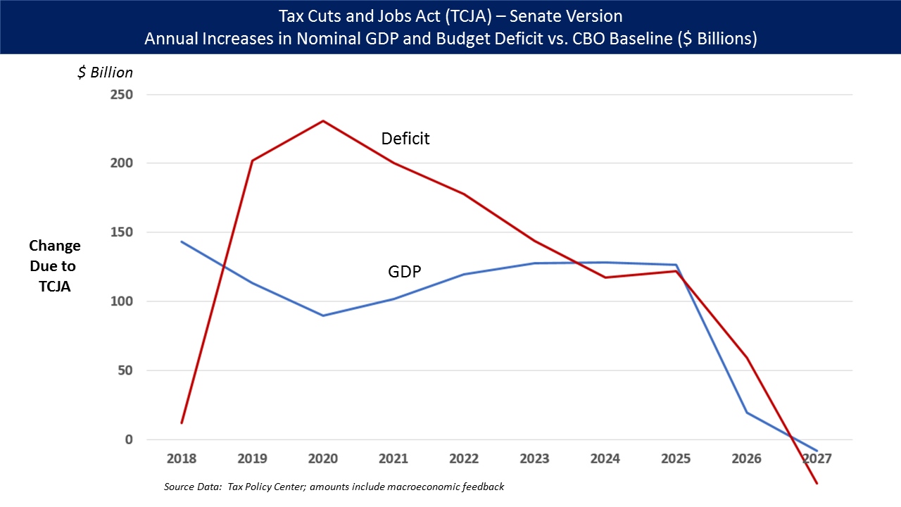 Annual increases in nominal GDP and budget deficit vs. CBO baseline, as estimated by the Tax Policy Center.